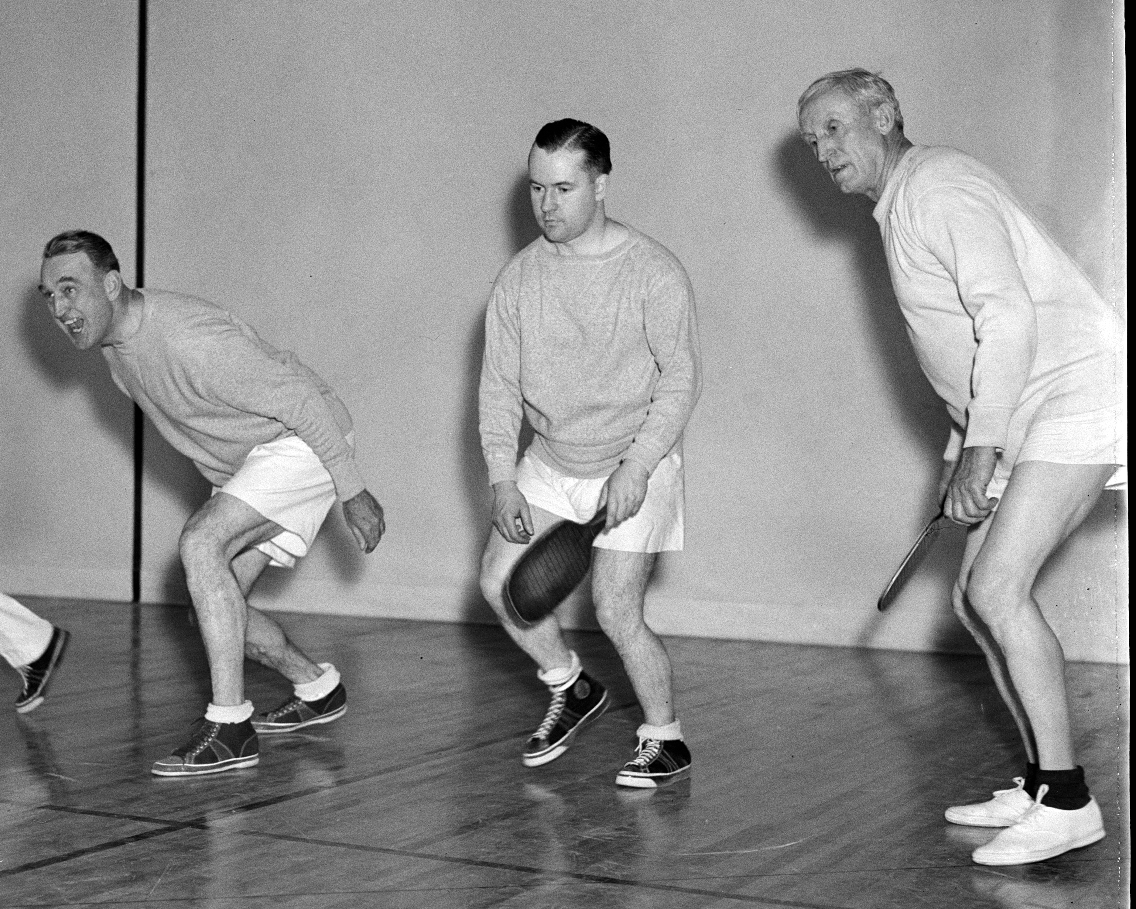 Congressmen James M. Mead from New York, Elmer Ryan from Minnesota and William P. Lambertson from Kansas (from left to right) during a sports session at the Gym of the Capitol Building.